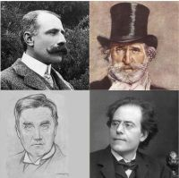 Edward Elgar (top l.), Giuseppe Verdi, (top r.) Ralph Vaughan Williams (lower l.) and Gustav Mahler, whose music was central to John Barbirolli's repertoire.